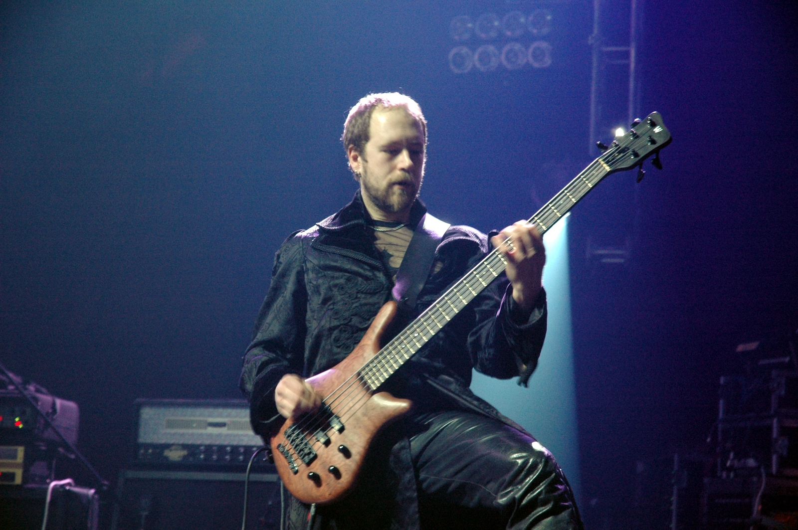 Hugh "Skoll" Mingay from Arcturus at Metalmania Festival 2005 in Poland